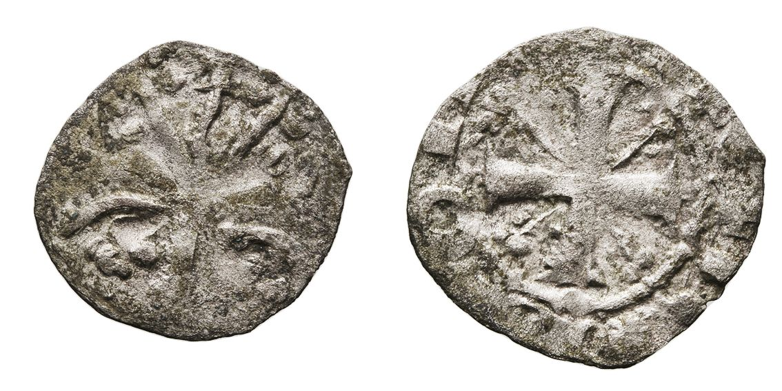 Leonese obol, billon coin minted in the city of León during the reign either of Alfonso IX of León (1188-1202) or of Ferdinand III (1230-1252).